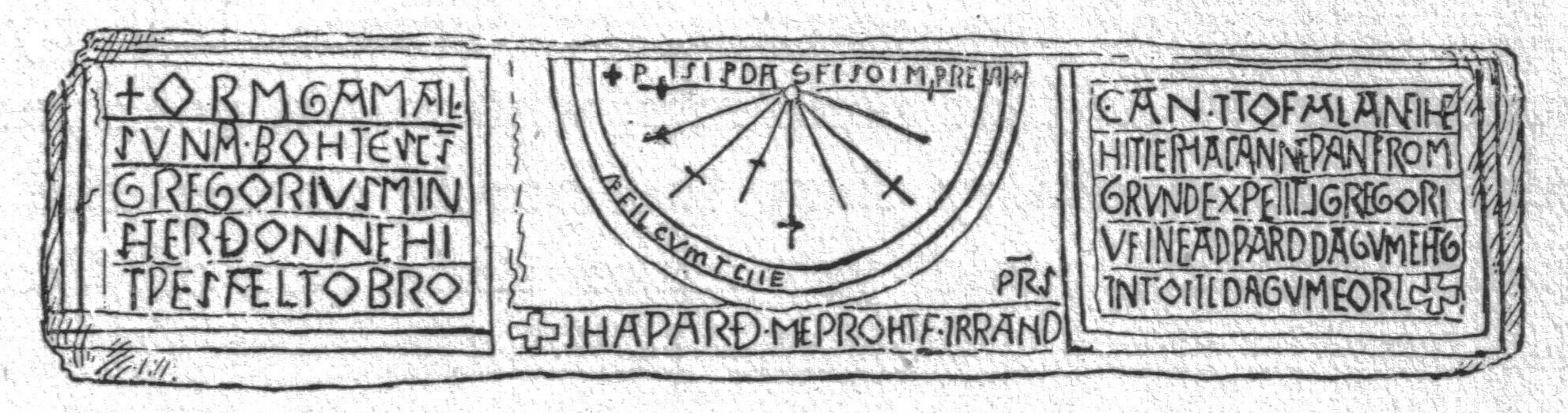 Old English inscriptions on Kirkdale Sundial, St Gregory's Minster, Kirkdale, North Yorkshire, England: Cropped version of existing file.